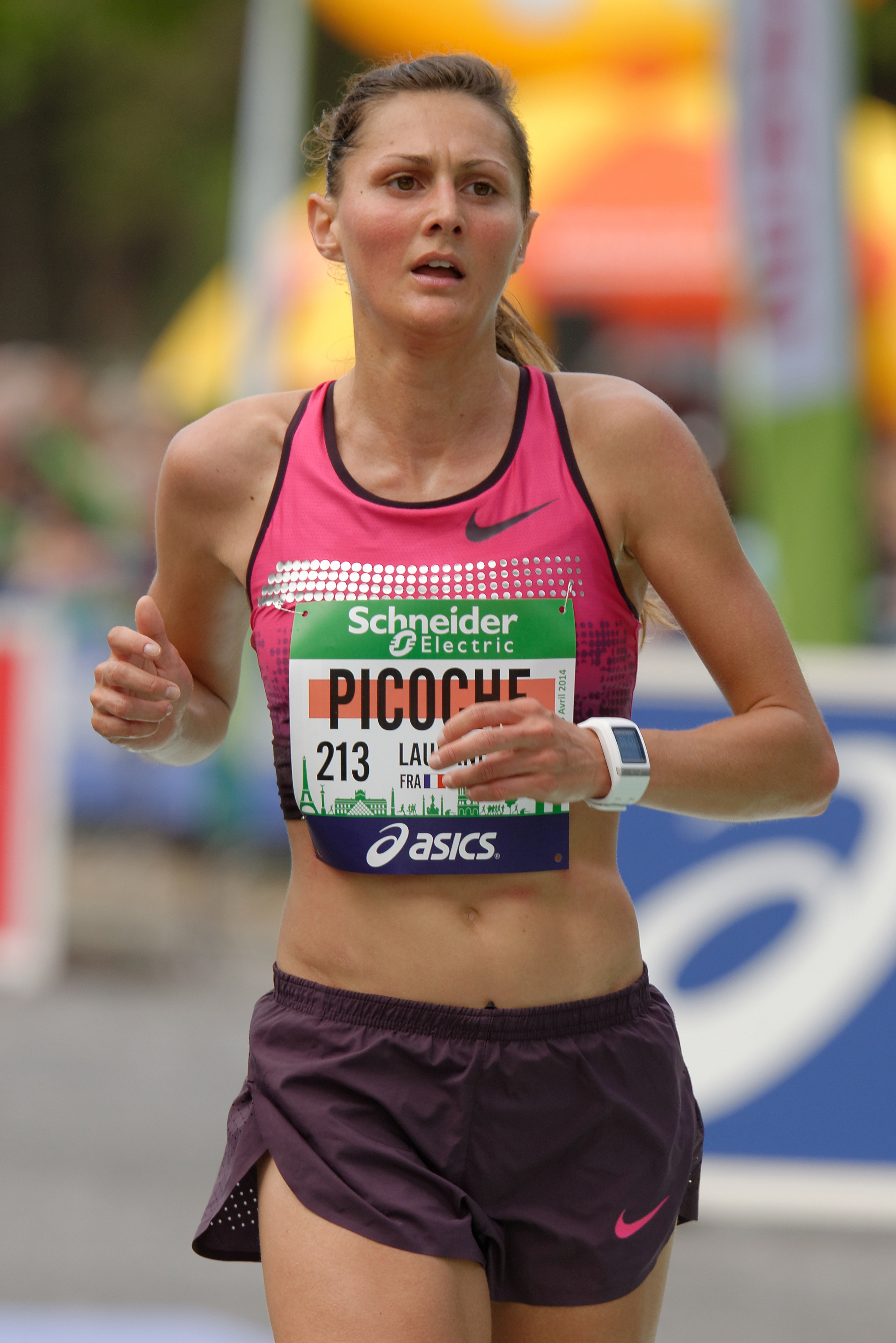 Laurane Picoche crosses the finish line of the 2014 Paris Marathon.